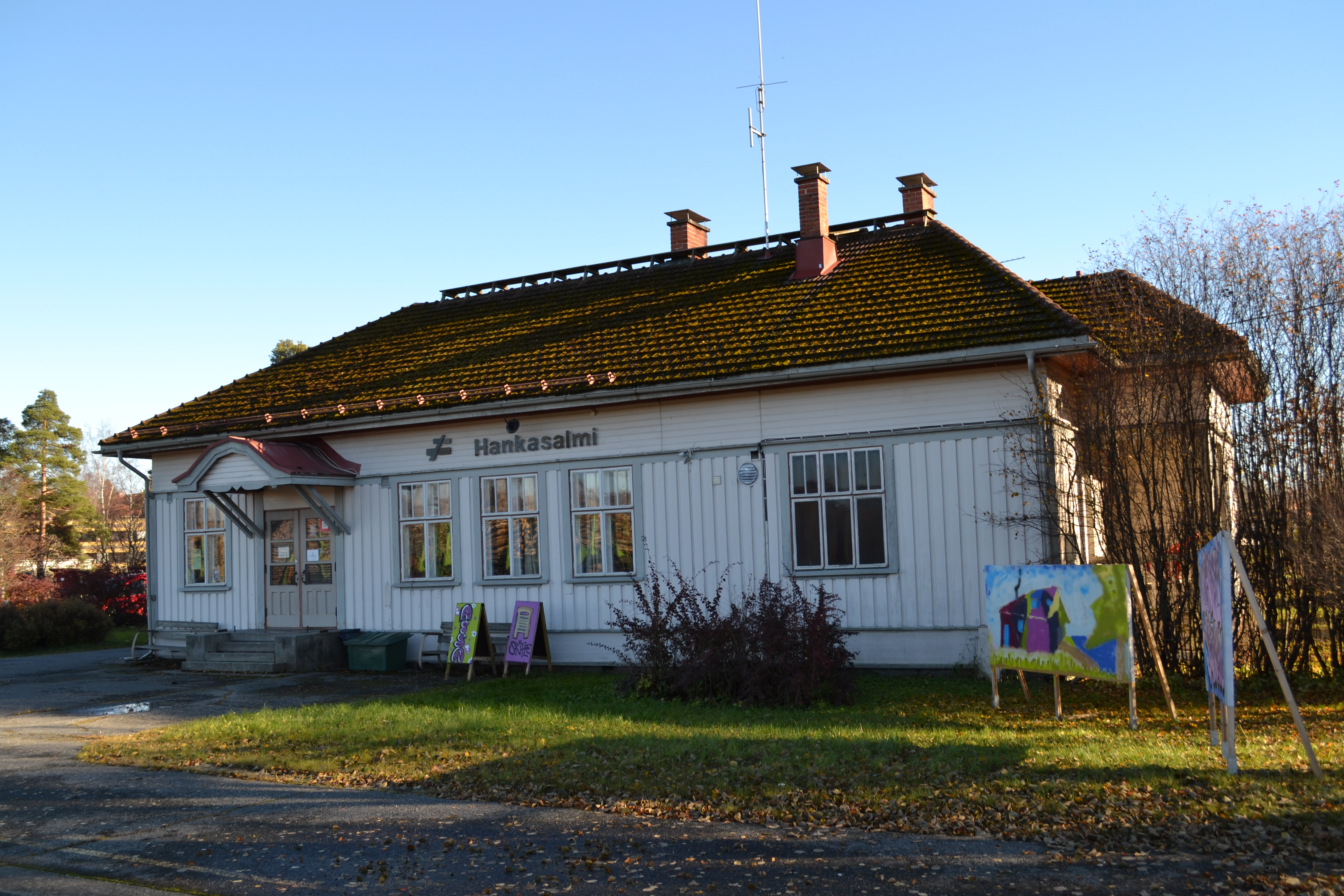 Hankasalmi railway station in autumn 2015